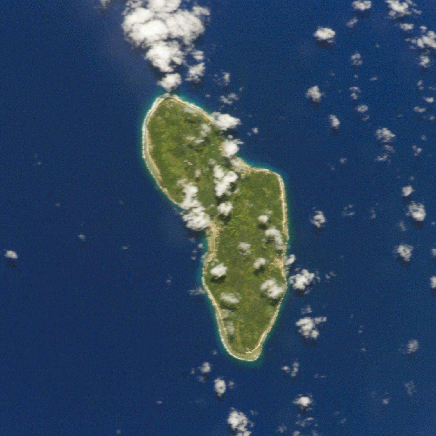 NASA astronaut image of Rurutu, Austral Islands, French Polynesia